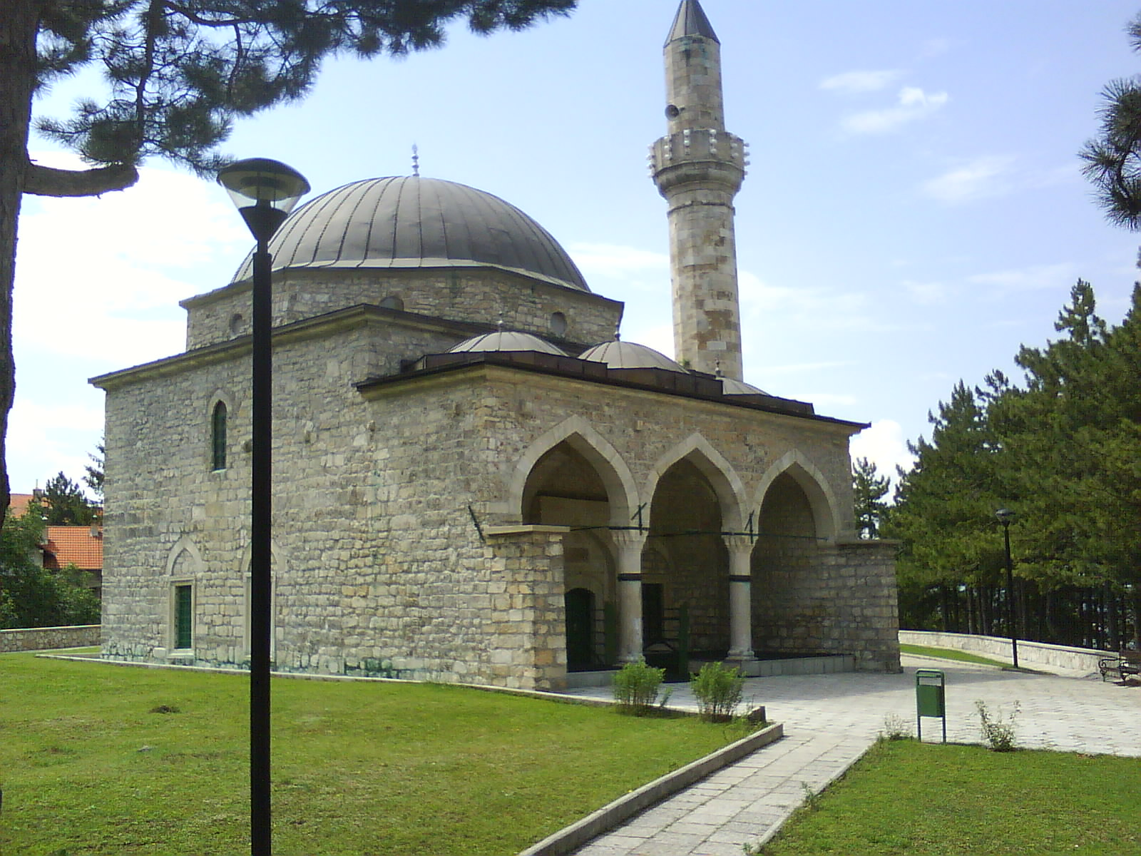 Mosque in Livno